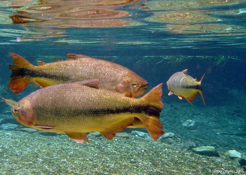 Brycon hilarii at Bonito, Mato Grosso do Sul, Brazil